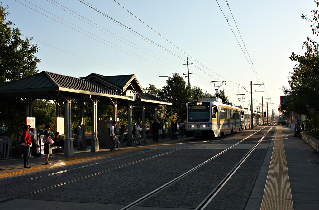 Commuters gather at Sunrise station on Sacramento Regional Transit's Gold Line (Folsom-Downtown) for the morning trip to the capital city. While utilitarian, these light rail trains provide a vital and efficient link for area commuters.